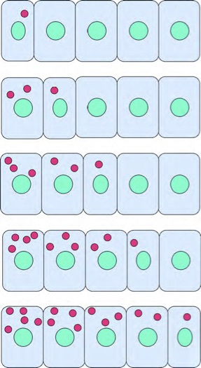 A contraction wave is depicted propagating from one cell to the next in an epithelial layer of cells. This initiates differentiation of the cell, which starts to produce cell type specific molecules, shown in red. If these molecules increase in number over time, as the wave propagates, a gradient of the molecules will develop across the epithelium, especially because differentiation waves propagate slowly, taking hours to cross it. The differentiation has already occurred, so the gradient is not causal of differentiation. In fact, the gradient may be called an irrelevant epiphenomenon.